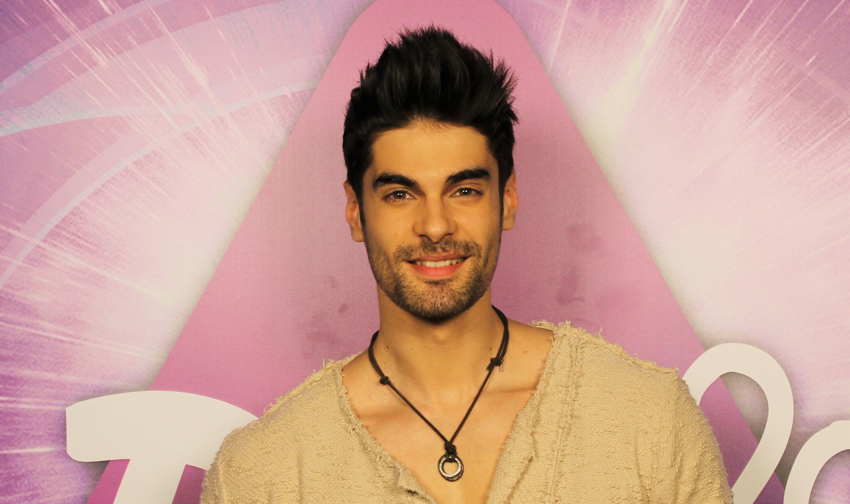 A Dal 2016 finalist and winner: Freddie